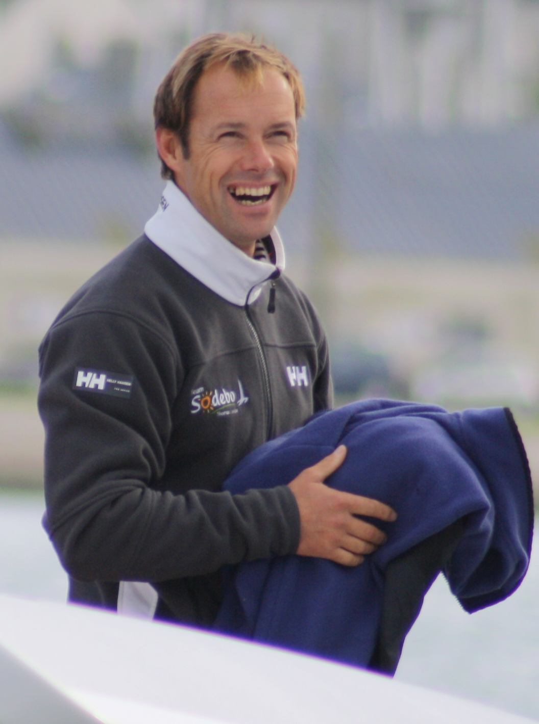 French skipper Thomas Coville photography in Saint-Malo (France) before Route du Rhum start in 2010.